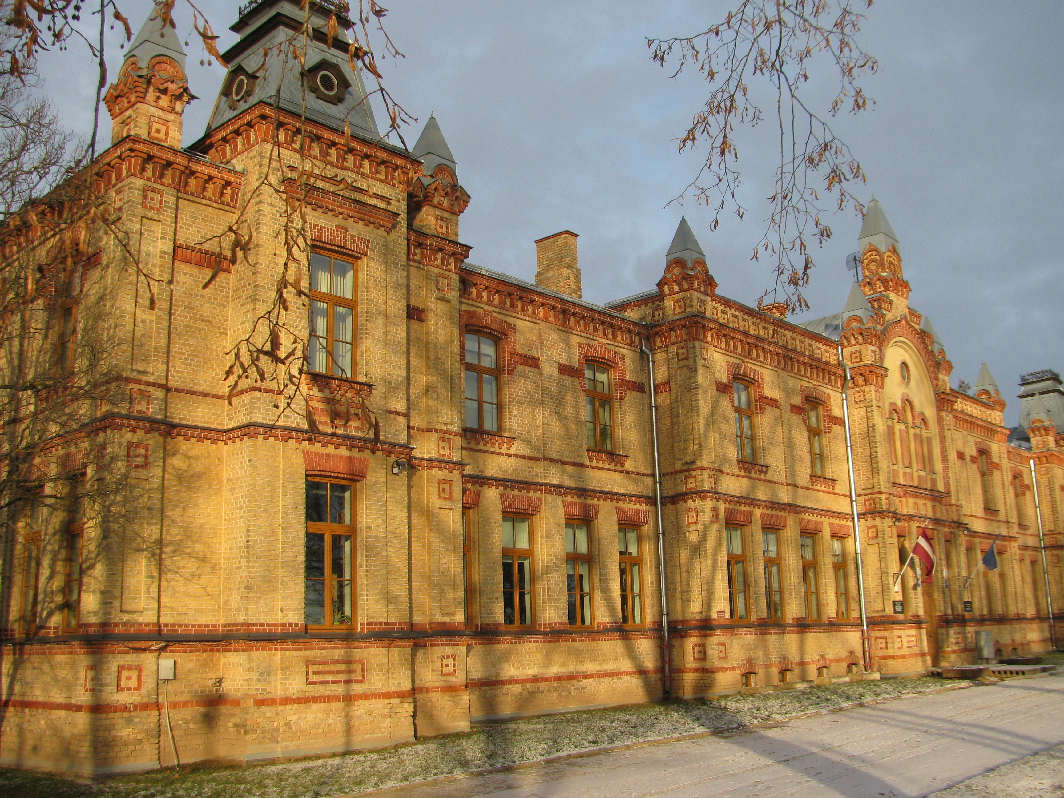 Valmiera State Gymnasium